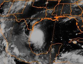 Hurricane Barry near landfall on August 28, 1983